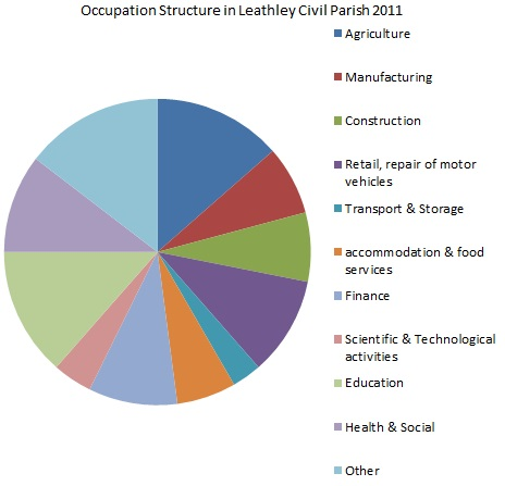 A Breakdown of the occupations held by residents in Leathley Civil Parish in 2011